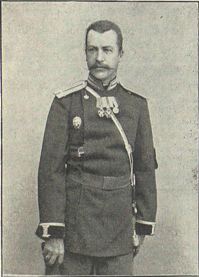 The actual state councilor of the Russian Empire, Philip Stepanov.